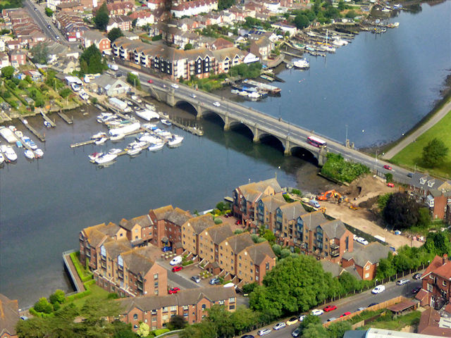 River Itchen, Cobden Bridge